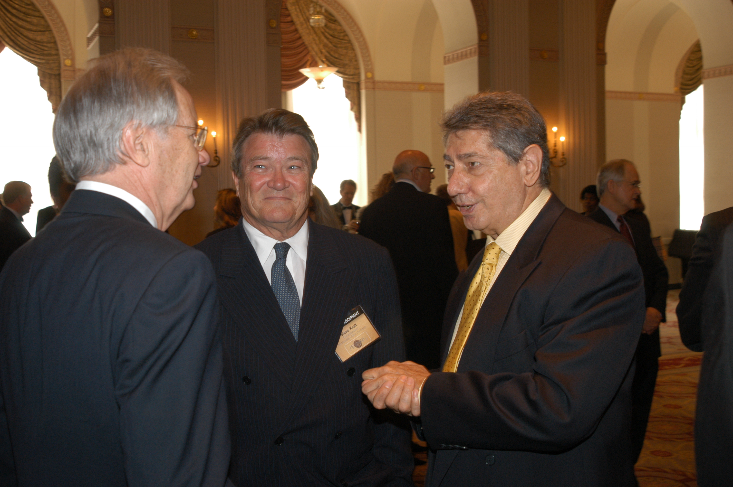 PHOTO CREDIT: ANDERS KRUSBERG / PEABODY AWARDS Steve Kroft and Jac Venza, 63rd Annual Peabody Awards Luncheon Waldorf=Astoria Hotel May 17, 2004